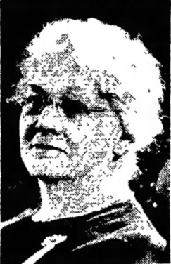 Screenshot-2017-9-9 17 Jul 1934, Page 5 - The Independent Record at Newspapers com